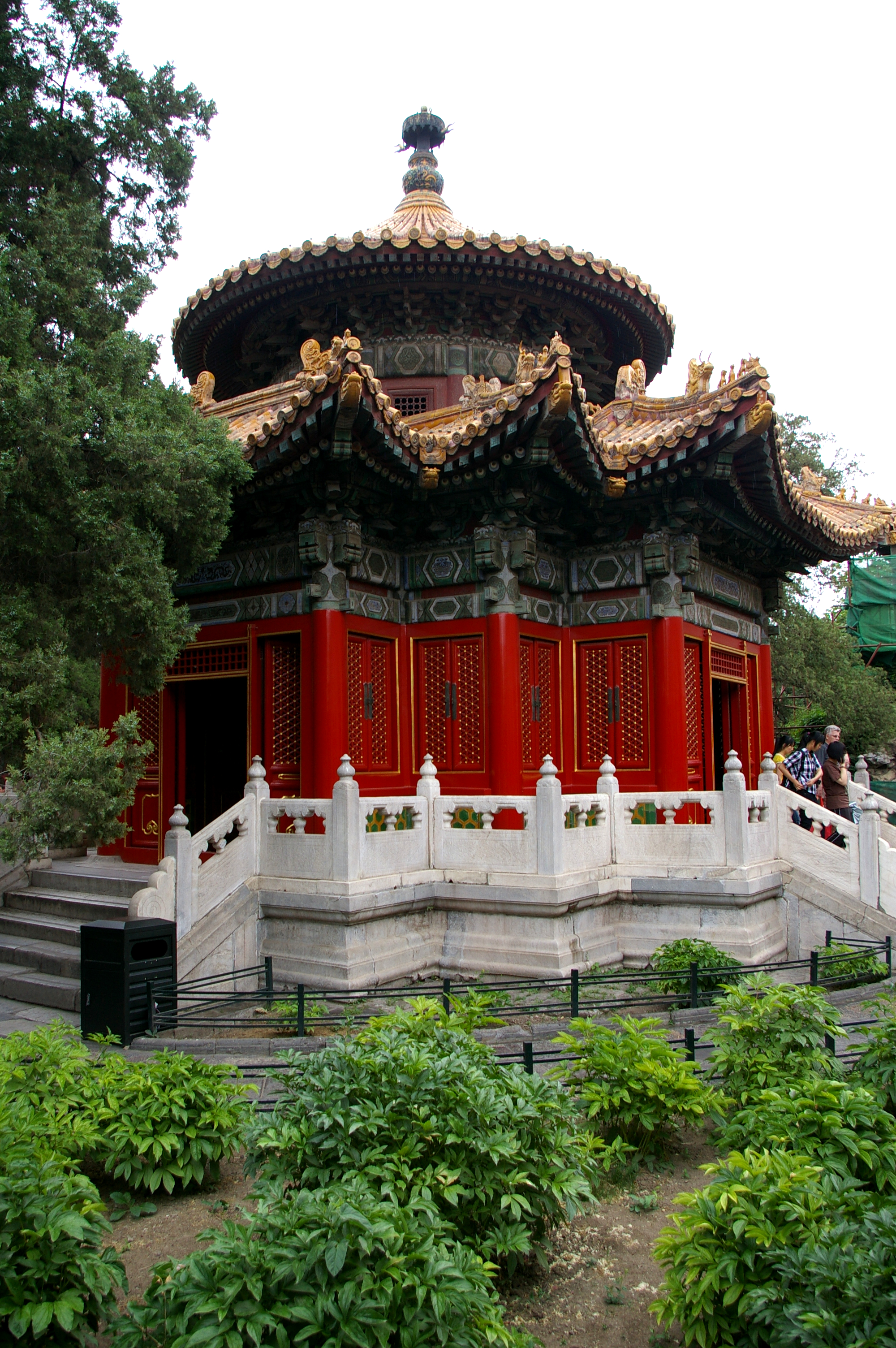 Forbidden City in Beijing